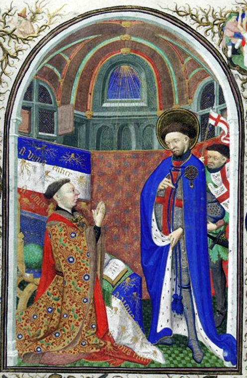 John of Lancaster, 1st Duke of Bedford. Detail from a miniature in the "Bedford Book of Hours" in the British Library: The Duke of Bedford prays before St George. Paris, c. 1423 British Library Add. MS 18850, f.256v Bedford Hours, the Bedford Master and his studio.